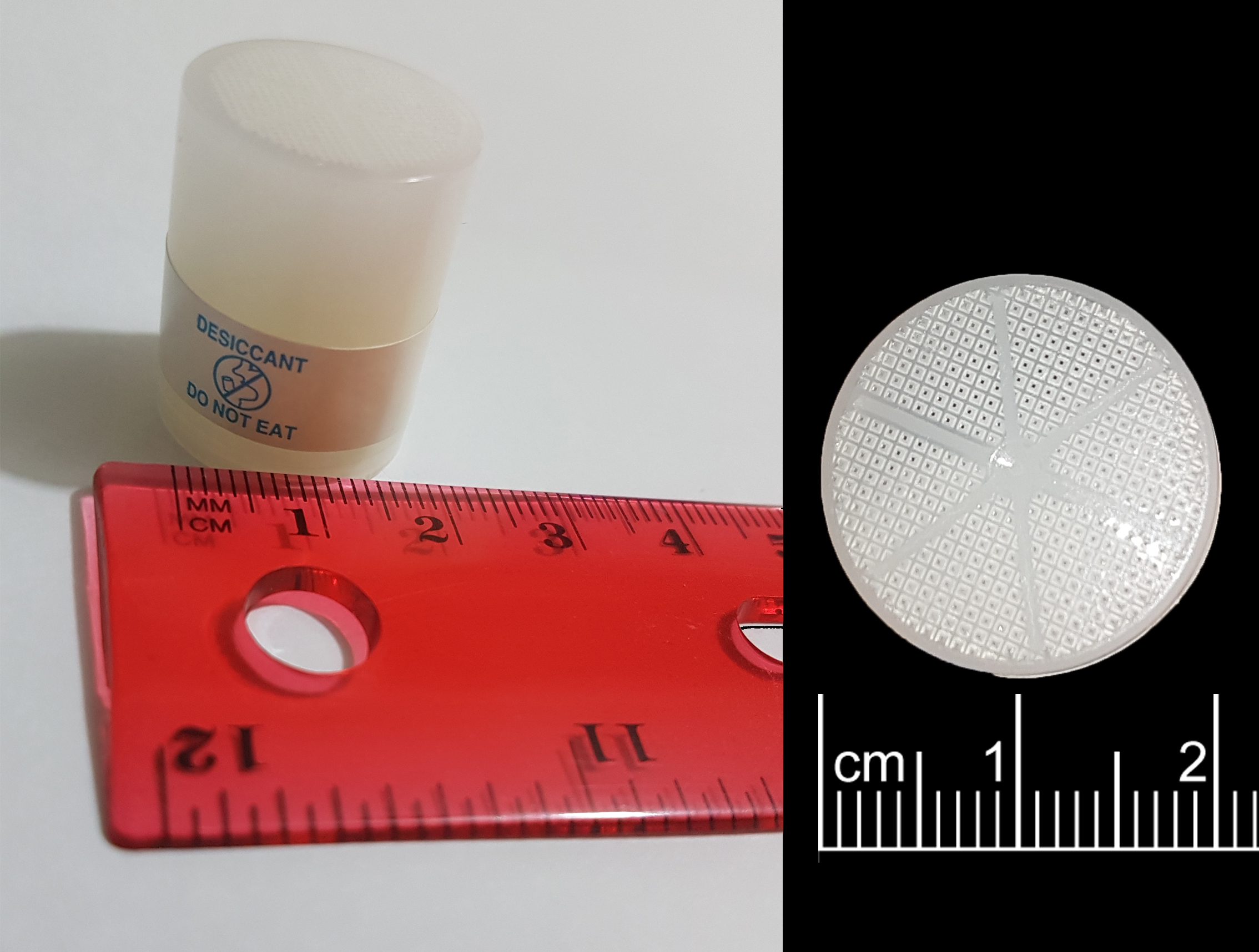 A molecular sieve, which allows small molecules to pass through while trapping large molecules inside. Commonly used for dessicants. At right, see the top of the sieve which shows the small holes. This is a new and improved illustration of a molecular sieve, showing its size (fixing Template:NoCoins) and showing the holes at the top. It is high resolution and uses a culturally neutral scale. This new version uses photography from me, which I release into the public domain for the betterment of humanity. :)